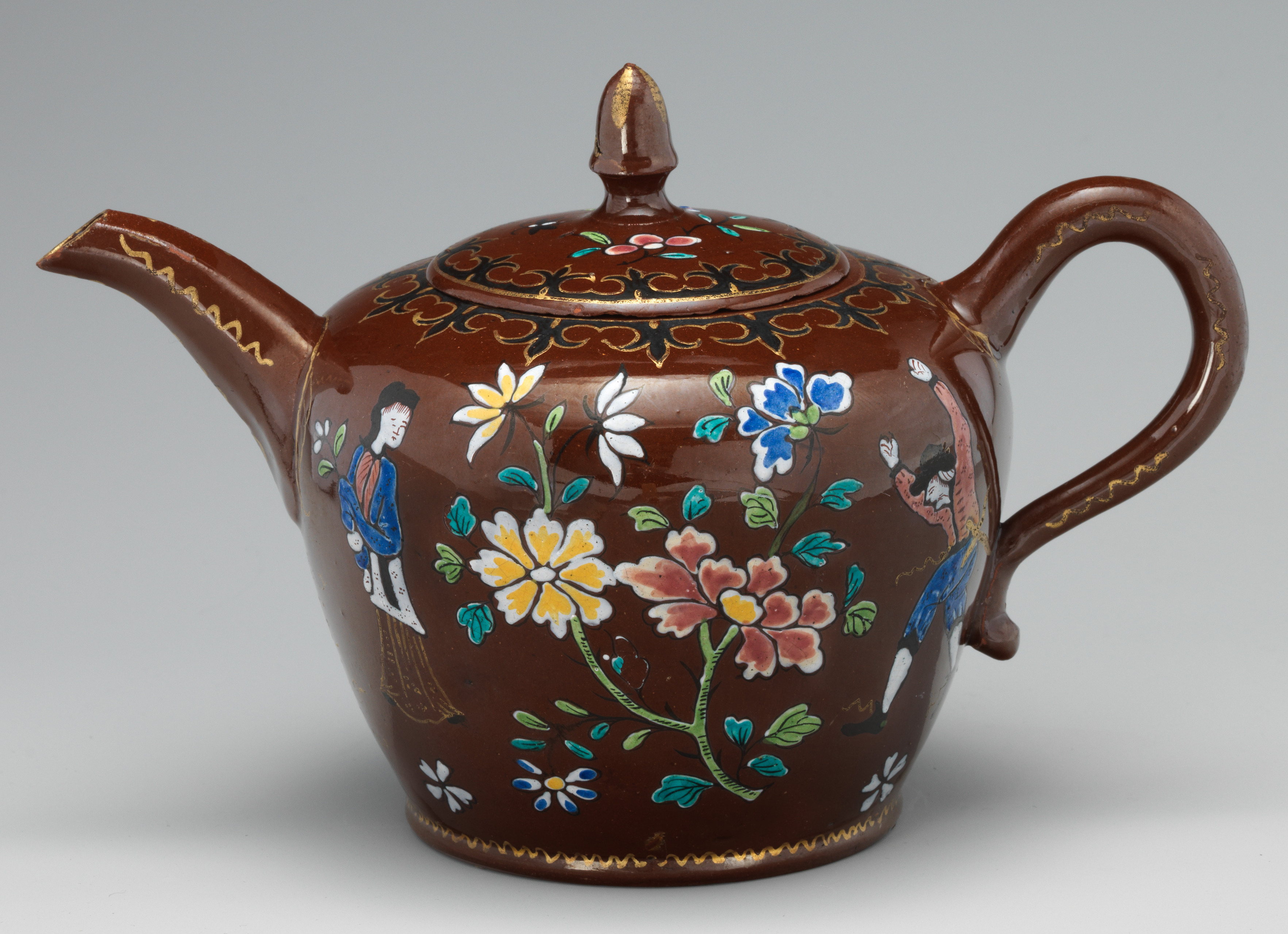 British, Staffordshire; Teapot; Ceramics-Pottery